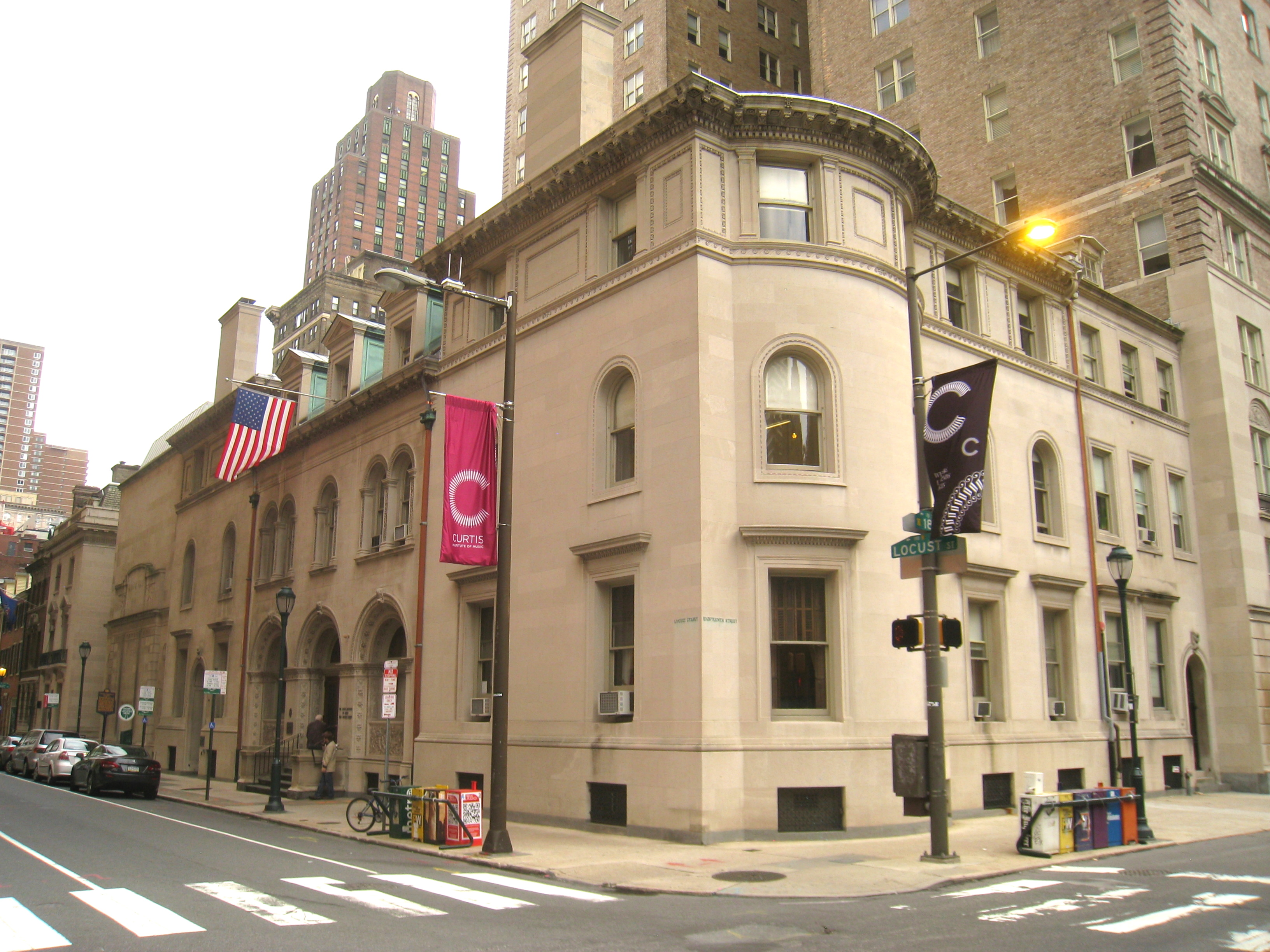 Curtis Institute of Music, Philadelphia, Pennsylvania, USA.